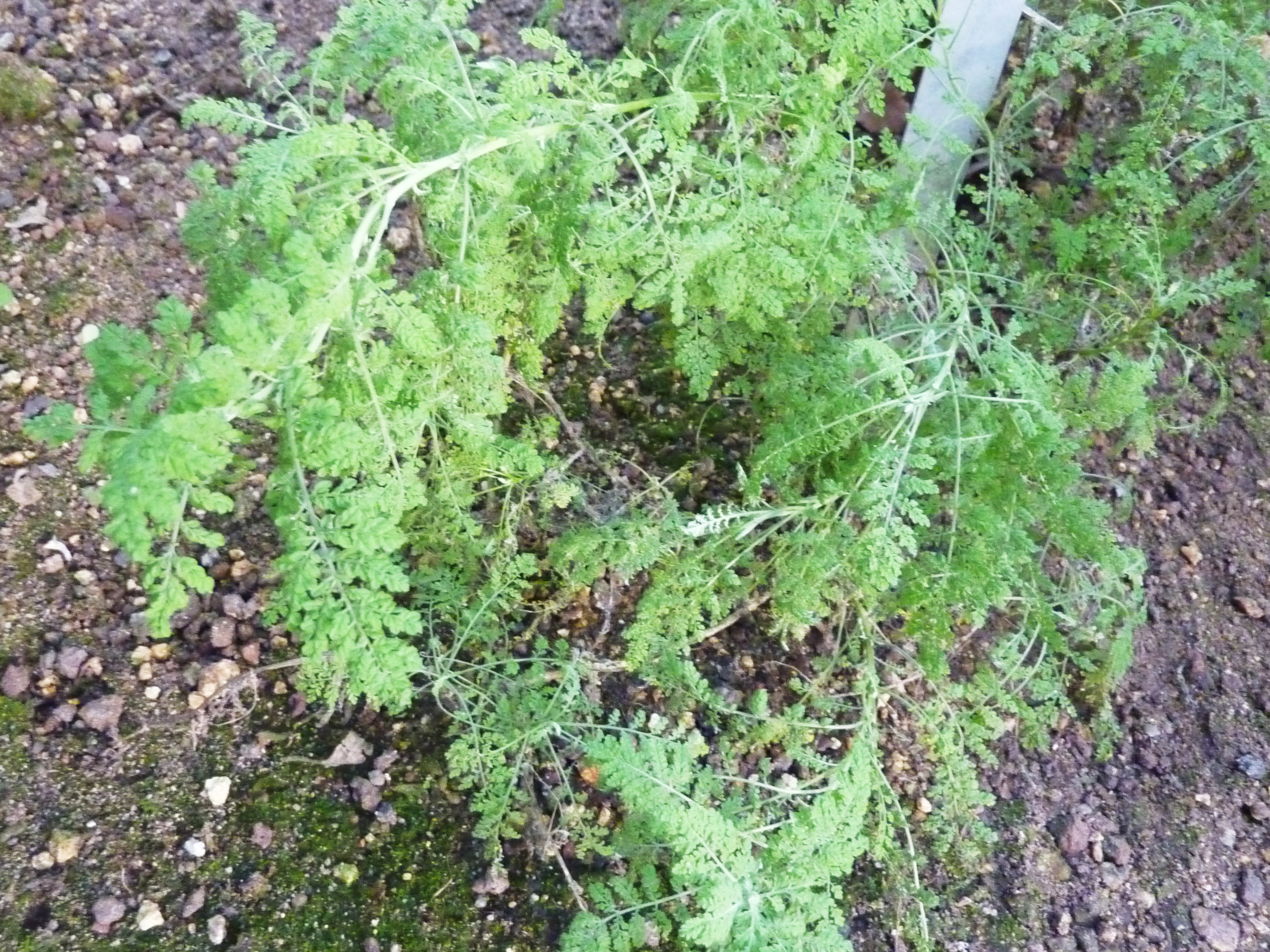 Descurainia millefolia in the Botanical Garden, Berlin